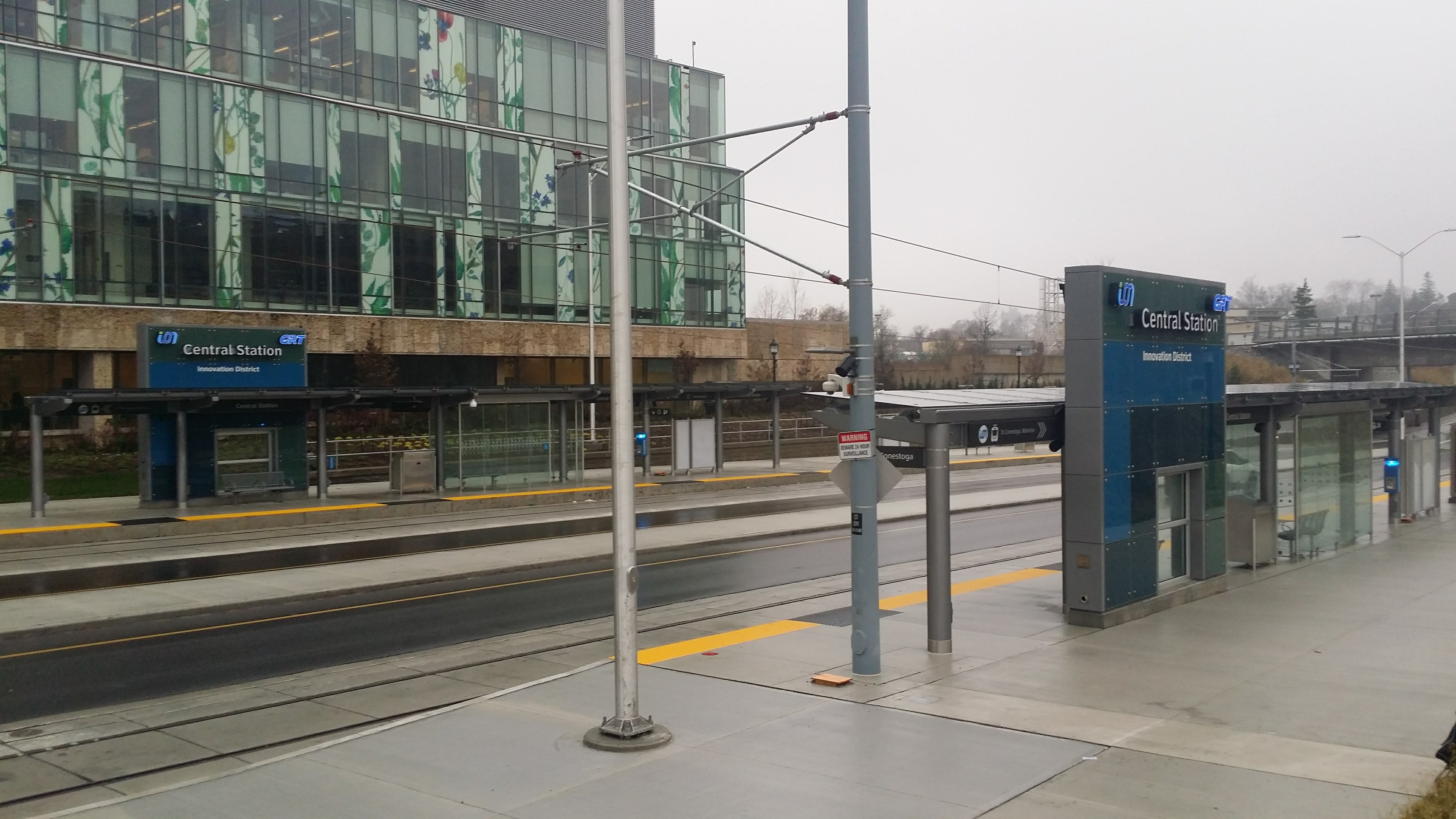 Central Station of the Ion rapid transit system, photographed structurally complete November 2017